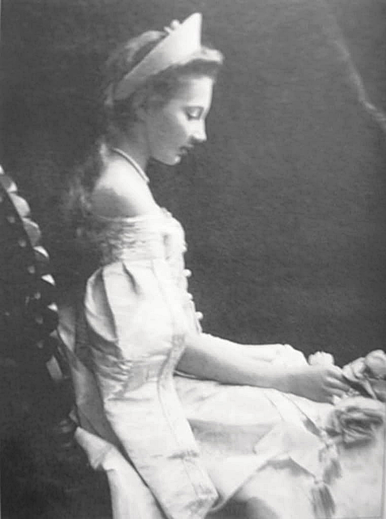 Tatiana Konstantinovna of Russia